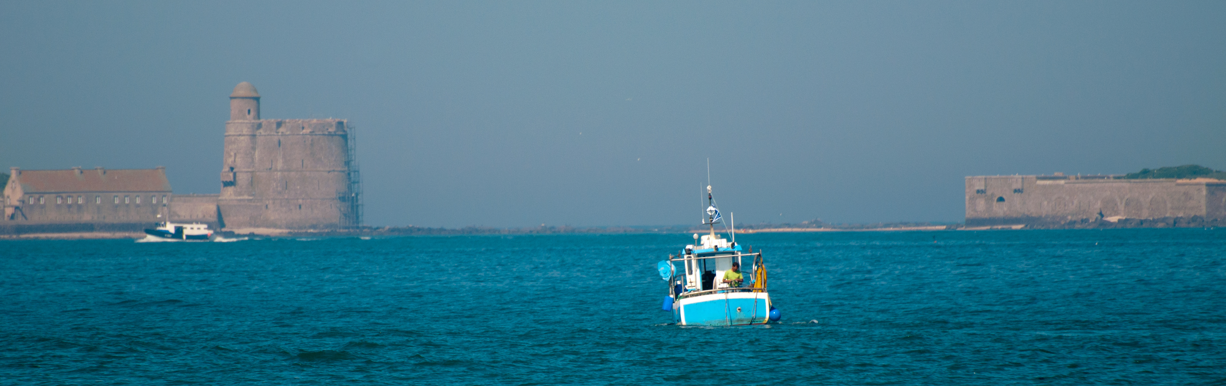 Chillin' at Fort de la Hougue viewing the identical fortress at the island of Tatihou.